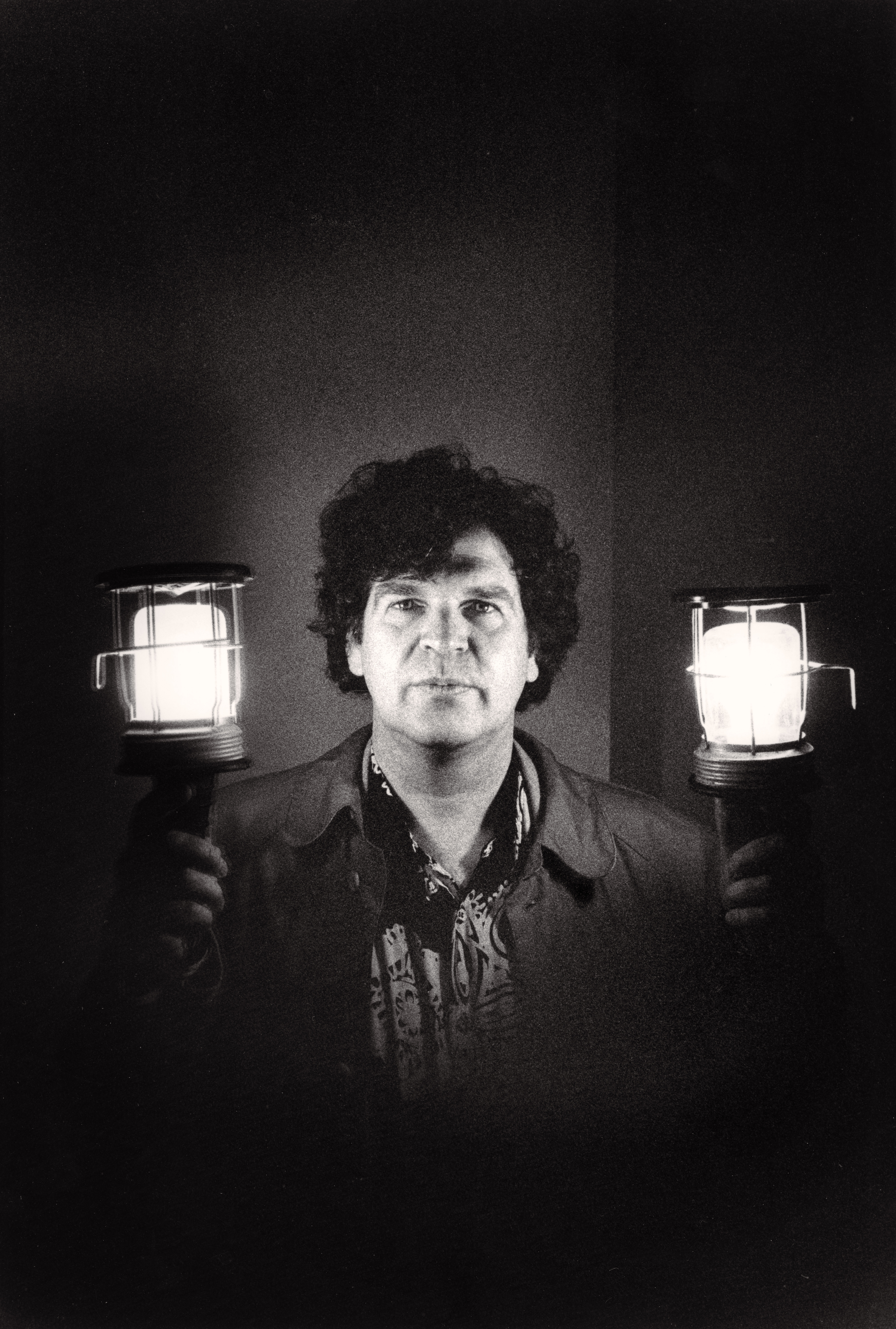 Writer A.F.Th. van der Heijden at home in Amsterdam, 1996.